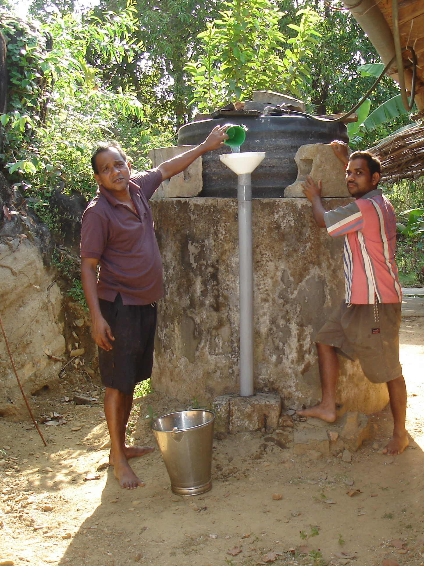 Samuchit Household biogas Plant can be buit in a courtyard, and uses kitchen waste, plate waste, fruit and vegetable waste as feed stock. This is an eco-friendly way to deal with organic waste generated in rural household kitchens. For more information